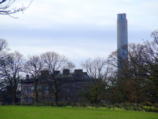 Ardgowan House